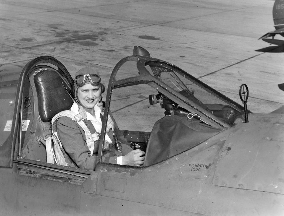 Pioneer American aviator Jacqueline "Jackie" Cochran in the cockpit of a Curtiss P-40 Warhawk fighter plane. Cochran was head of the Women Airforce Service Pilots (WASP).